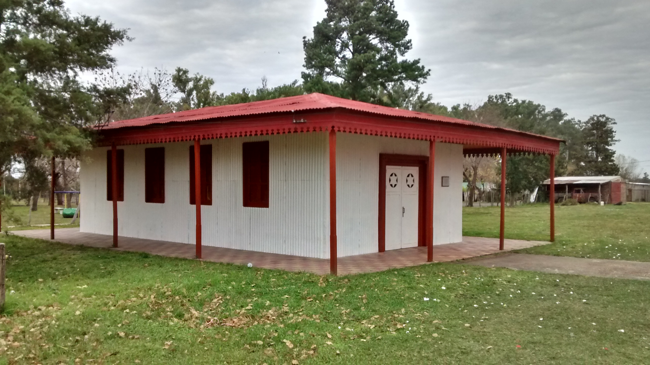 Colonia Avigdor (Entre Ríos): En esta antigua colonia judía está trabajando la Fundación Judaica para la recuperación de pequeñas industrias relacionadas con la agricultura y ganadería. La Comisión Nacional de Monumentos se suma a este proyecto con asesoramiento para la recuperación de los edificios históricos del pueblo. Además, se gestionó ante la Dirección Nacional de Arquitectura un crédito para la realización de obras de infraestructura que fue aprobado.